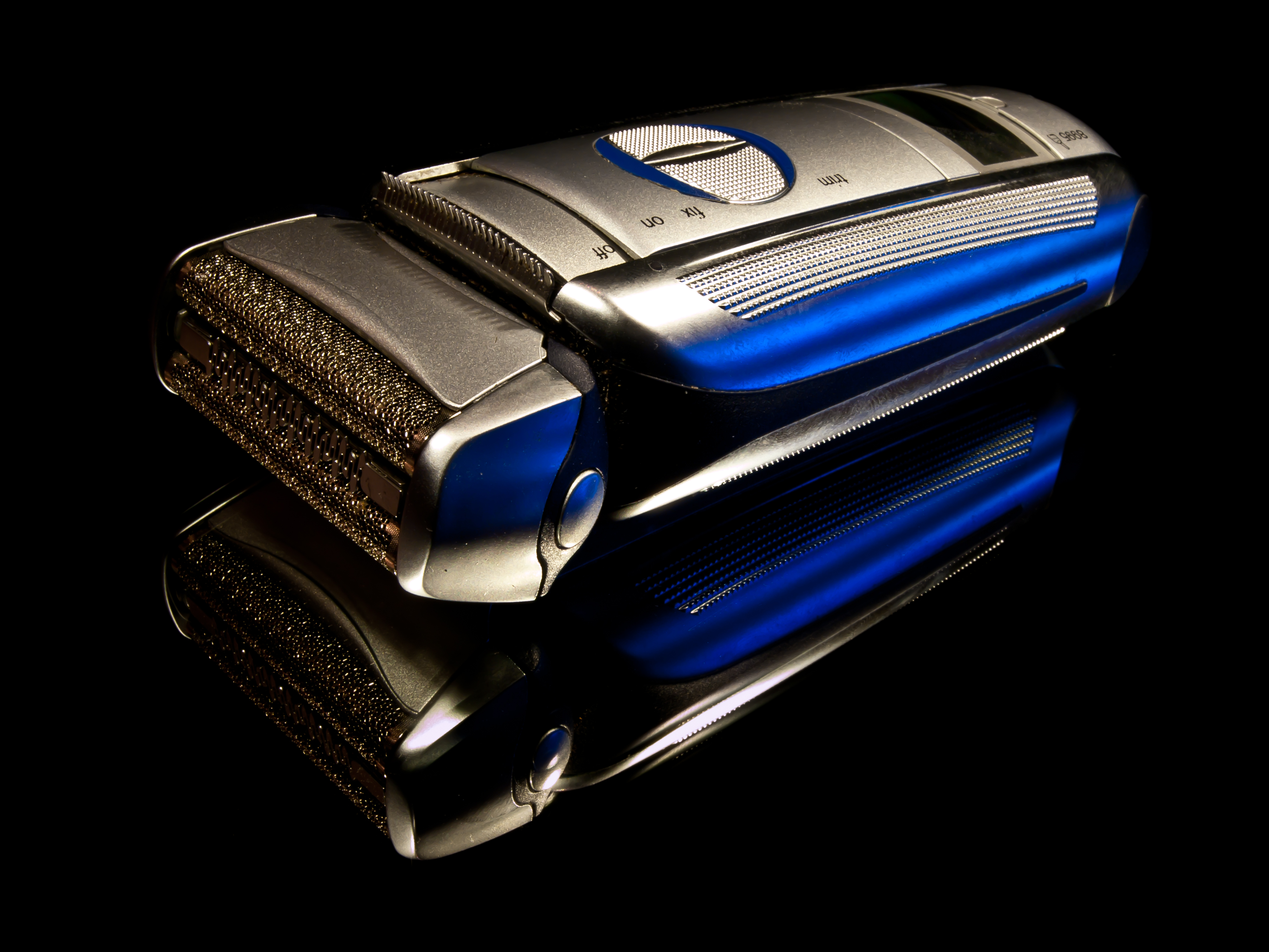 Braun 8995 electric shaver mirrored on a black background